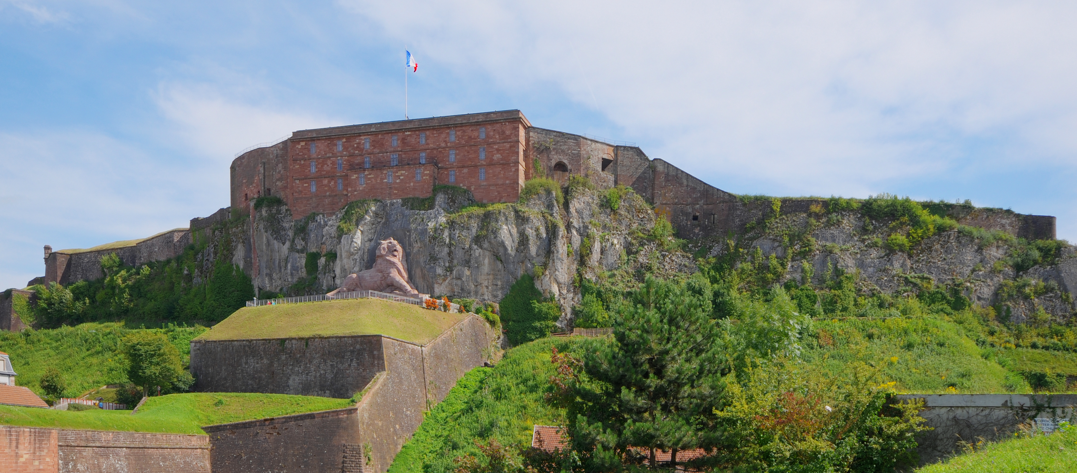 This photograph was taken with a Nikon D300 This building is en partie classé, en partie inscrit au titre des Monuments Historiques. . Citadelle de Belfort. Monument classé MH n°PA00101142 (HDR).